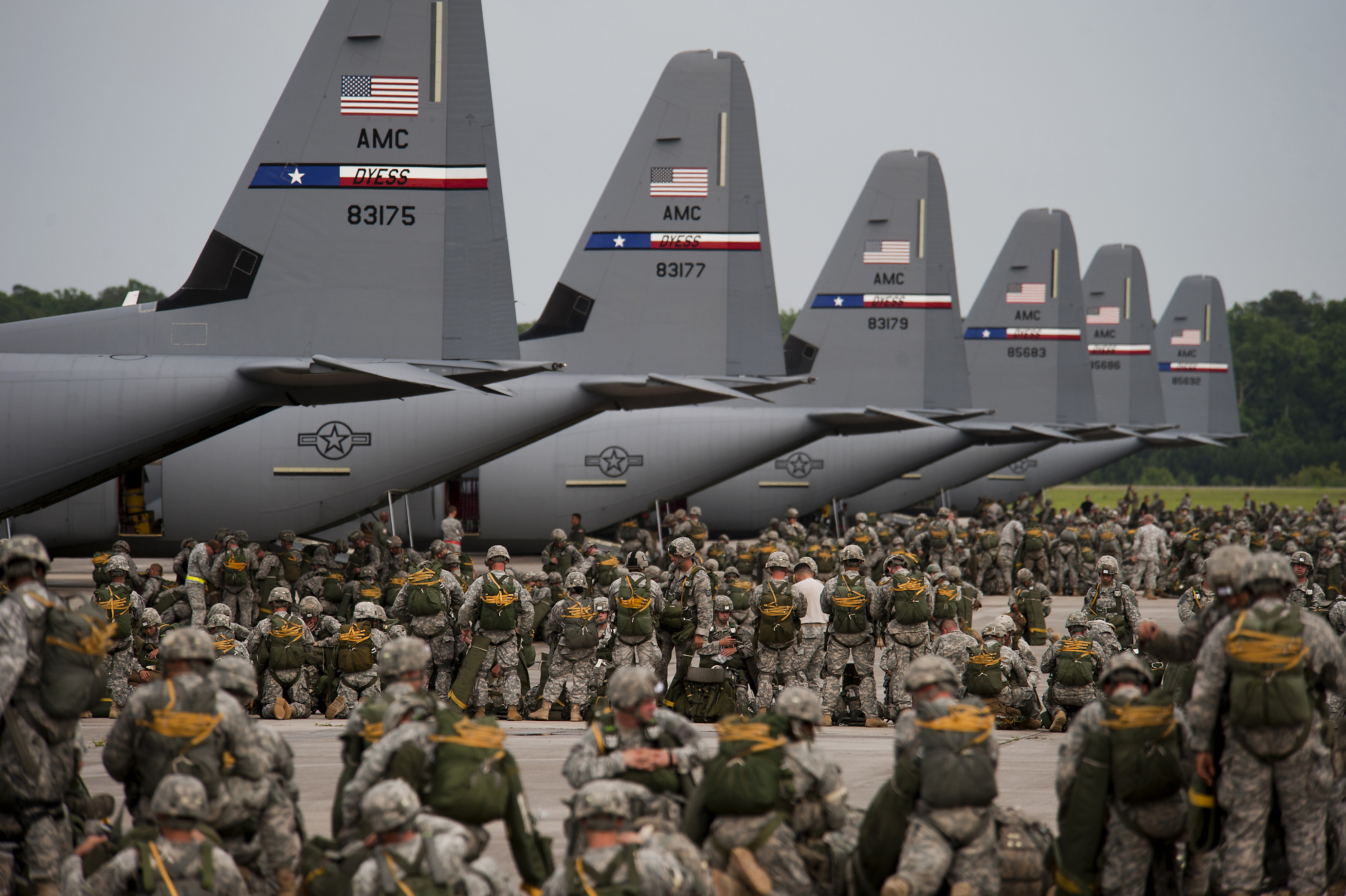 Soldiers from the U.S. Army’s 82nd Airborne Division ready their gear prior to a mass parachute jump from Air Force C-130J Hercules aircraft during a Joint Operation Access exercise at Pope Field, N.C., on June 24, 2013. The exercise designed to prepare airmen and soldiers to respond to worldwide crises and contingencies.